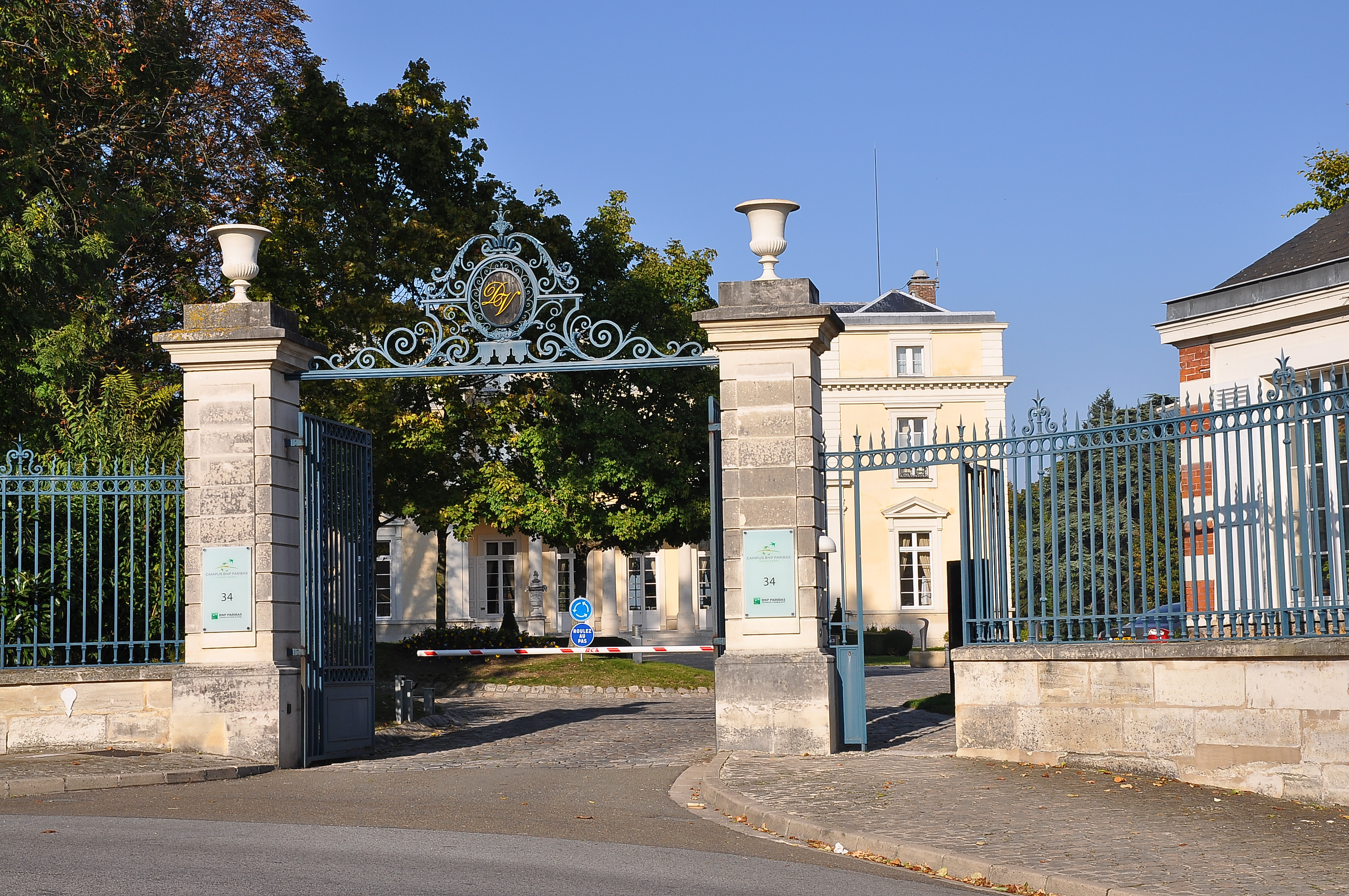 Entrance of Château de Voisins in Louveciennes, Yvelines departement, France.